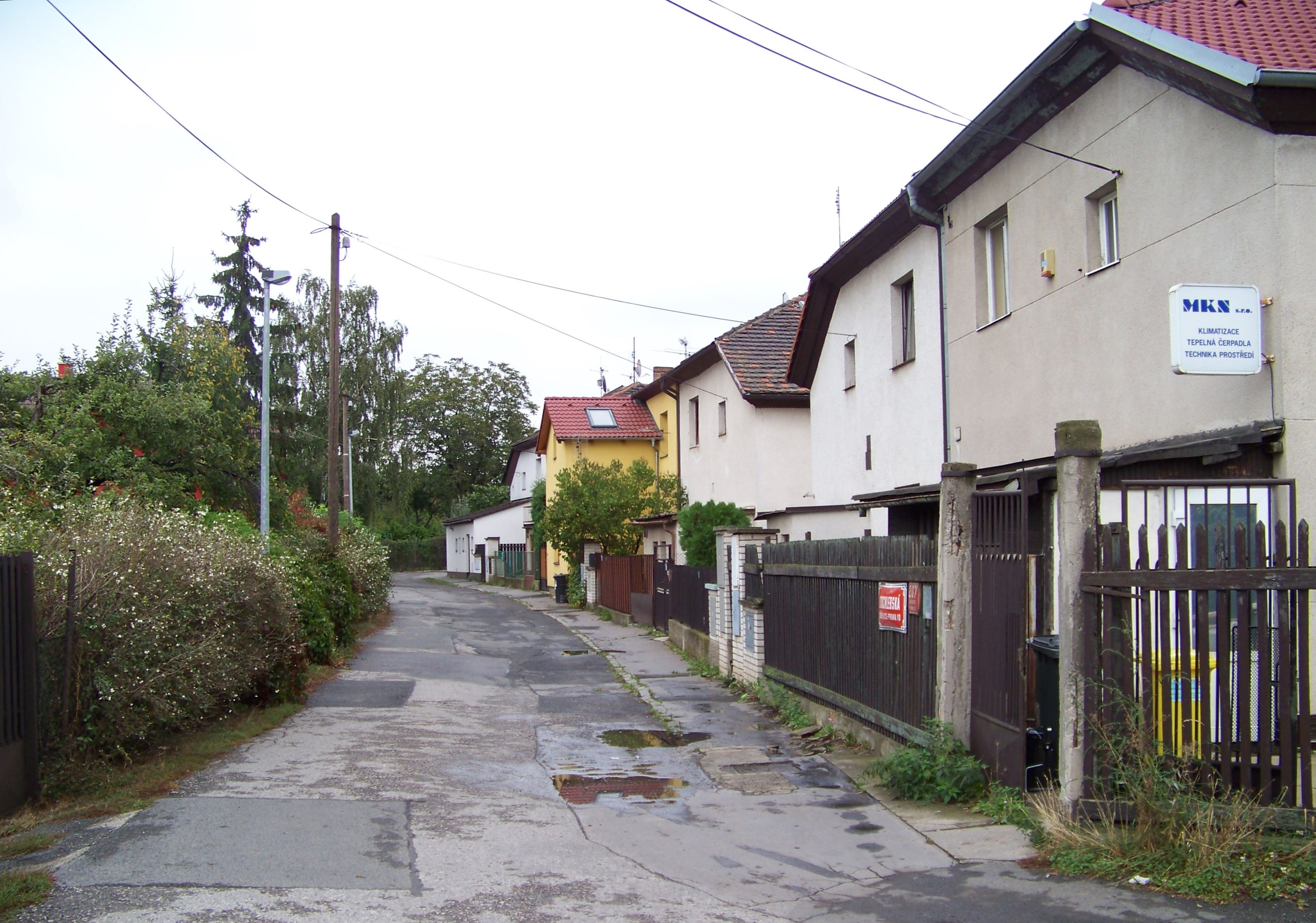 Záběhlice, Prague, the Czech Republic. Litochlebská Street. - Google Maps - Google Earth